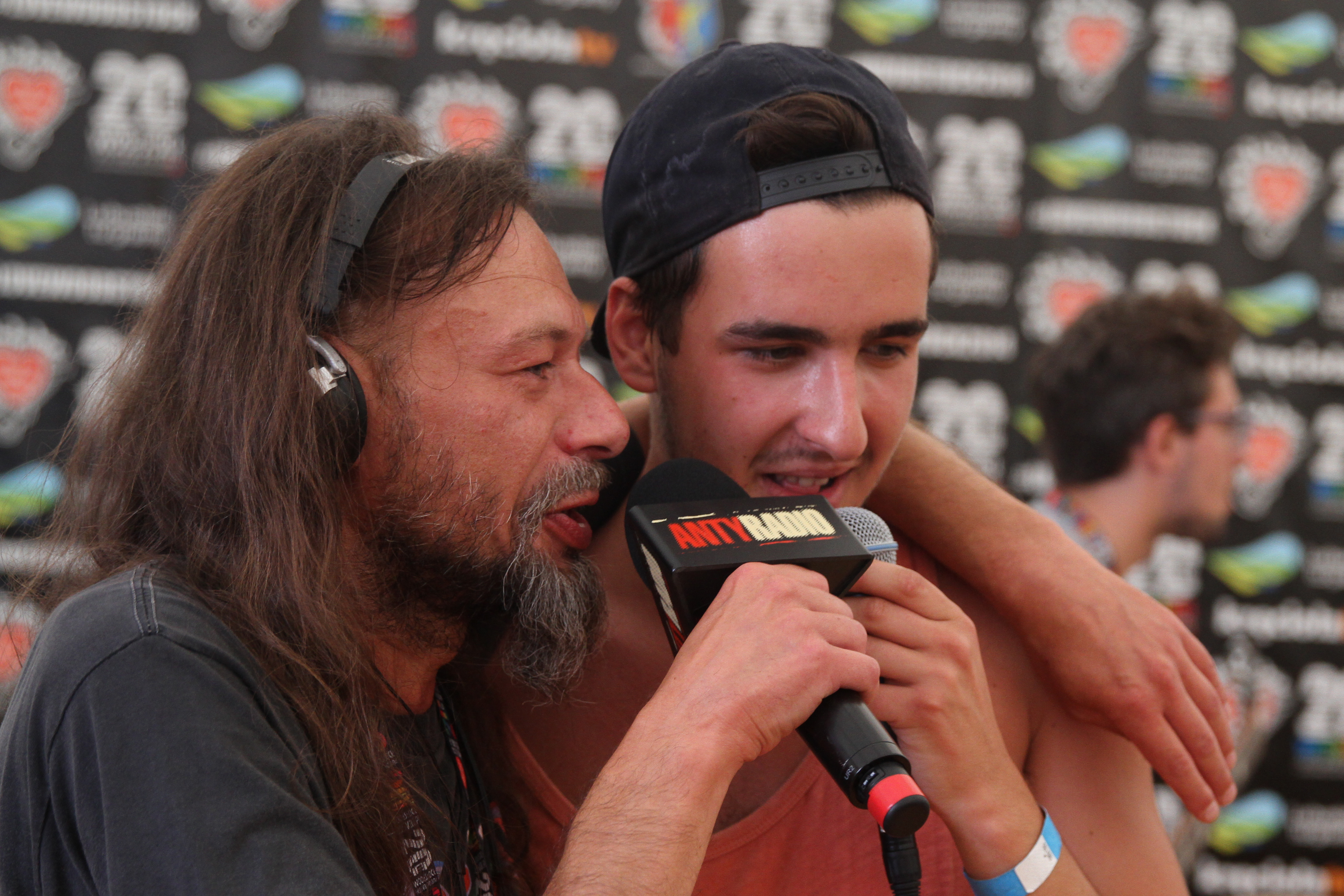 Przystanek Woodstock 2014.